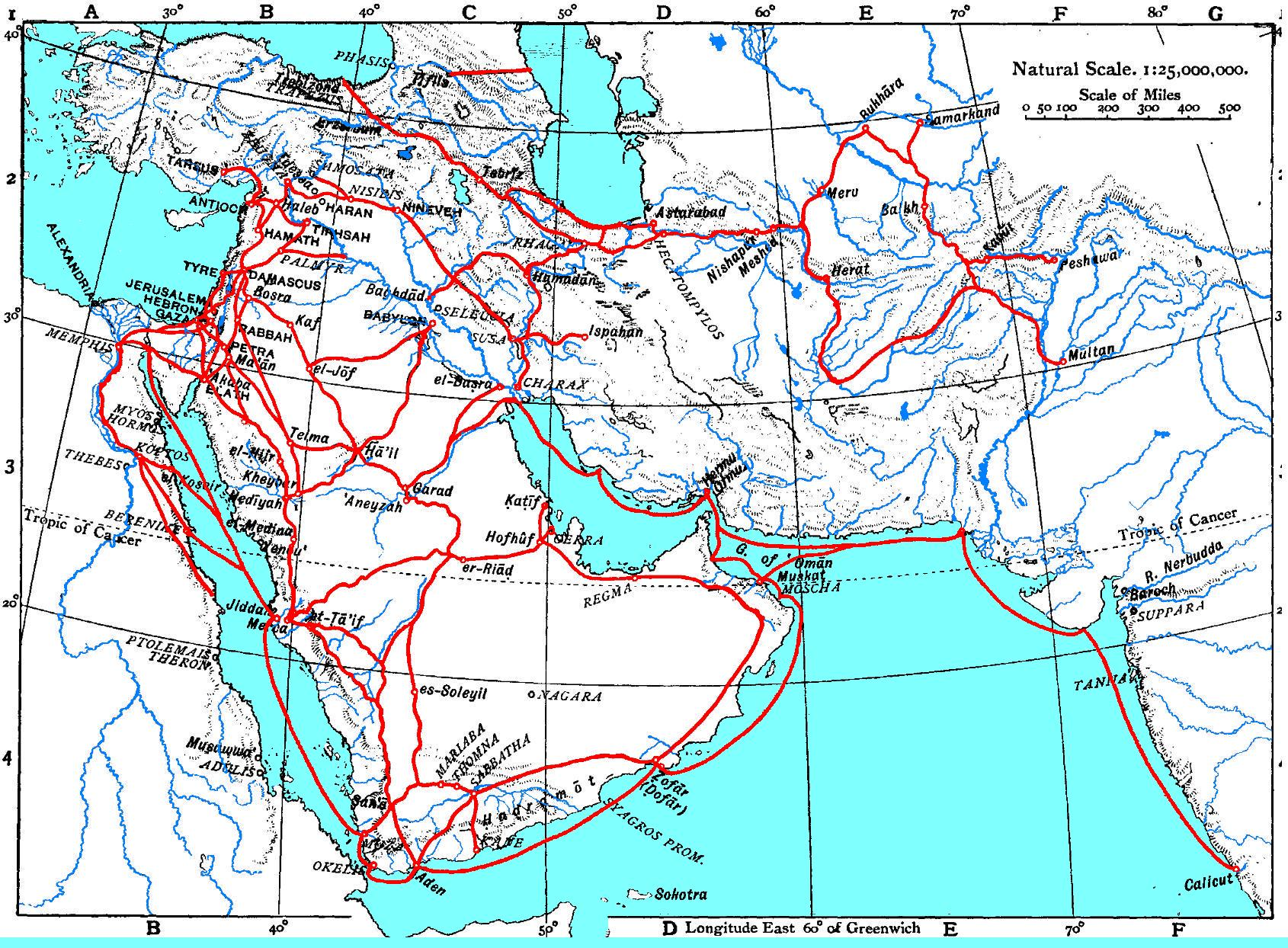 An illustration from the Encyclopaedia Biblica, a 1903 publication which is now in the public domain. Map 1 for article "Trade and Commerce". Map of trade routes in the ancient Near-East. Colour added artificially by Newman Luke (talk) (the uploader) from an original black+white image.